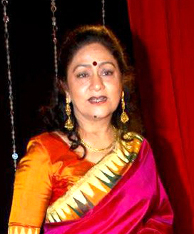 Zee TV Rishtey award night